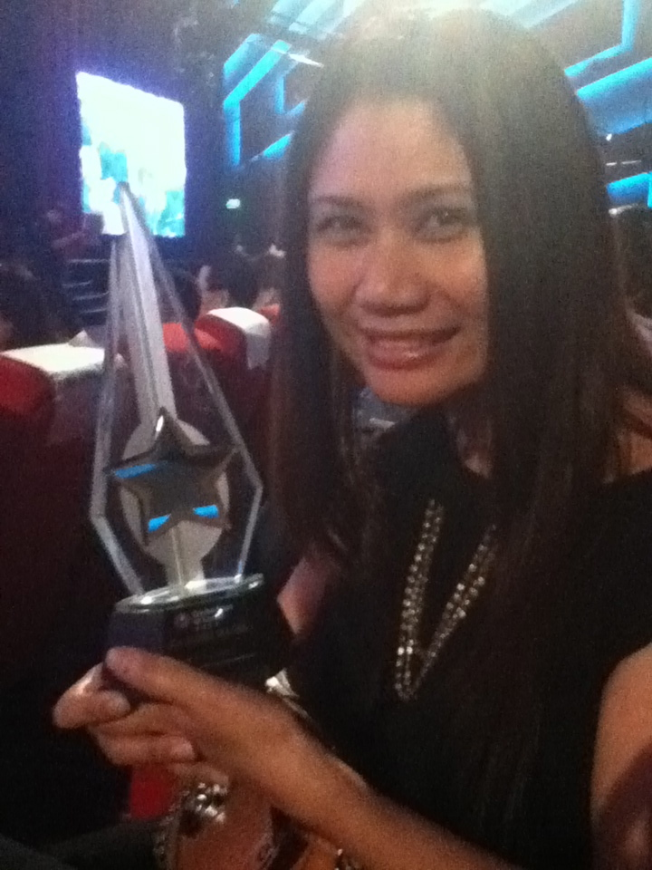 Anita Ramos Camba at the Star Awards as MOMents receive the Best Celebrity Talk Show (25th PMPC Star Awards for TV) (2011)